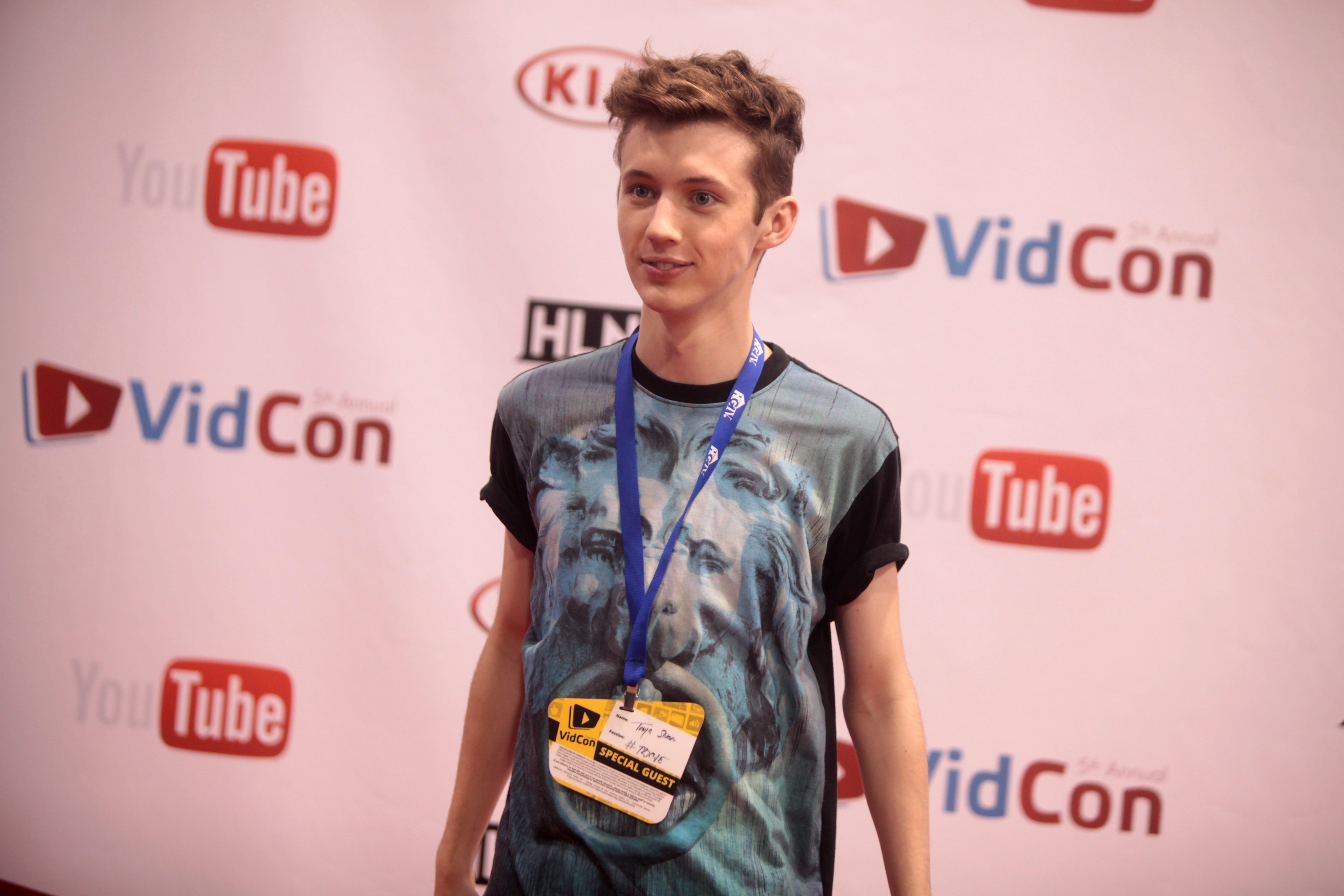 Troye Sivan speaking at the 2014 VidCon at the Anaheim Convention Center in Anaheim, California.